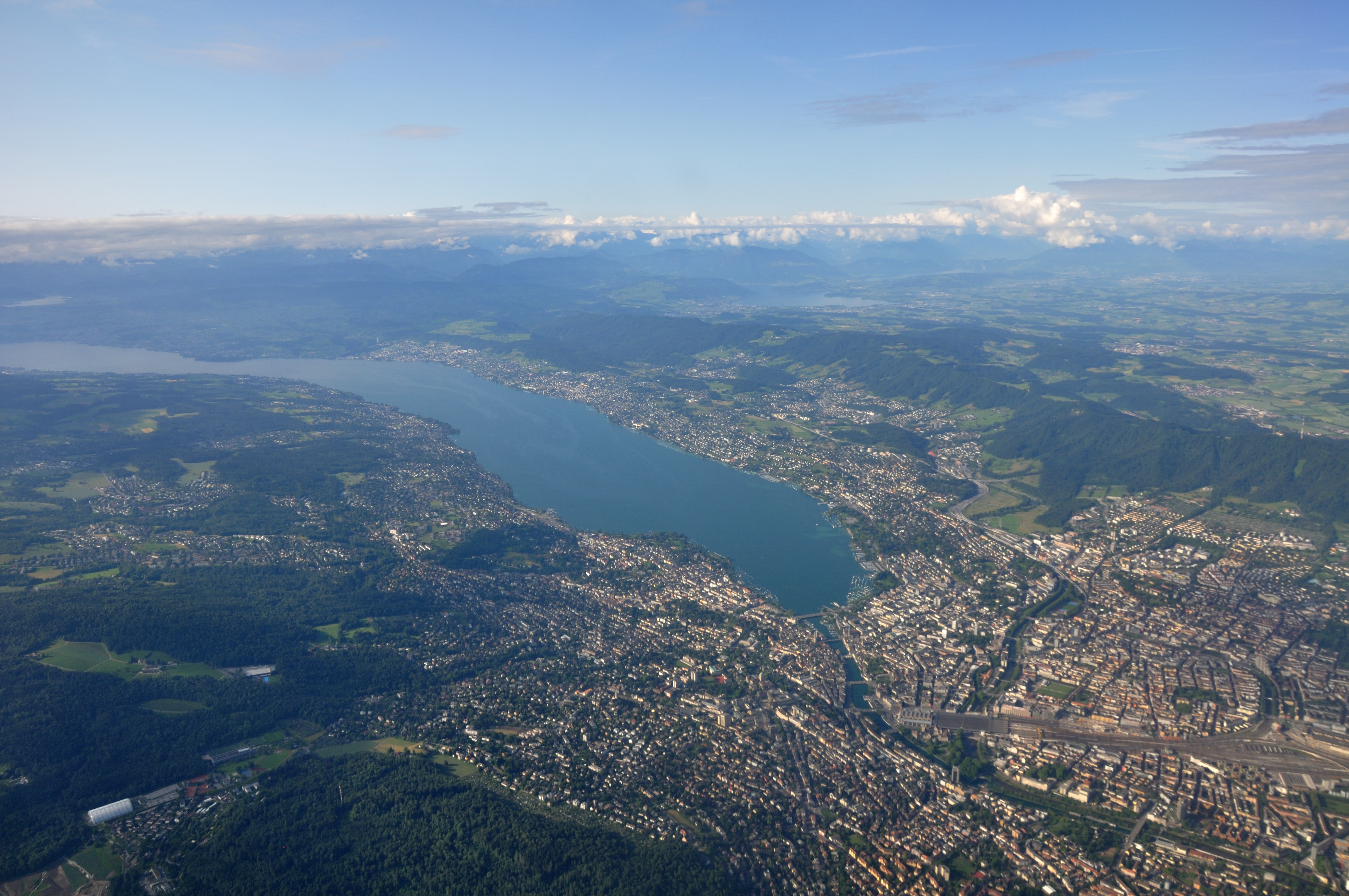 Switzerland, Canton of Zürich, view while climbing out from runway 28 at Zurich International Airport in a wide left turn eastbound.